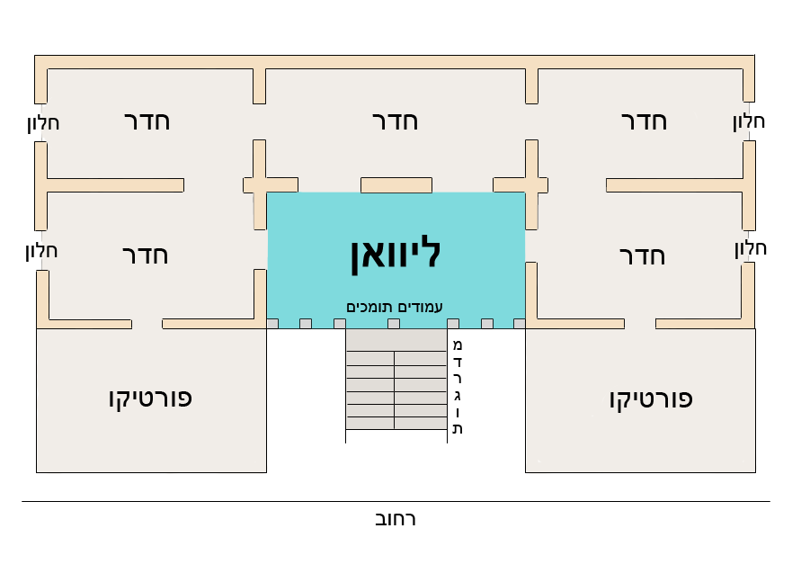 Based onFile:Liwan.PNG By Tim1965